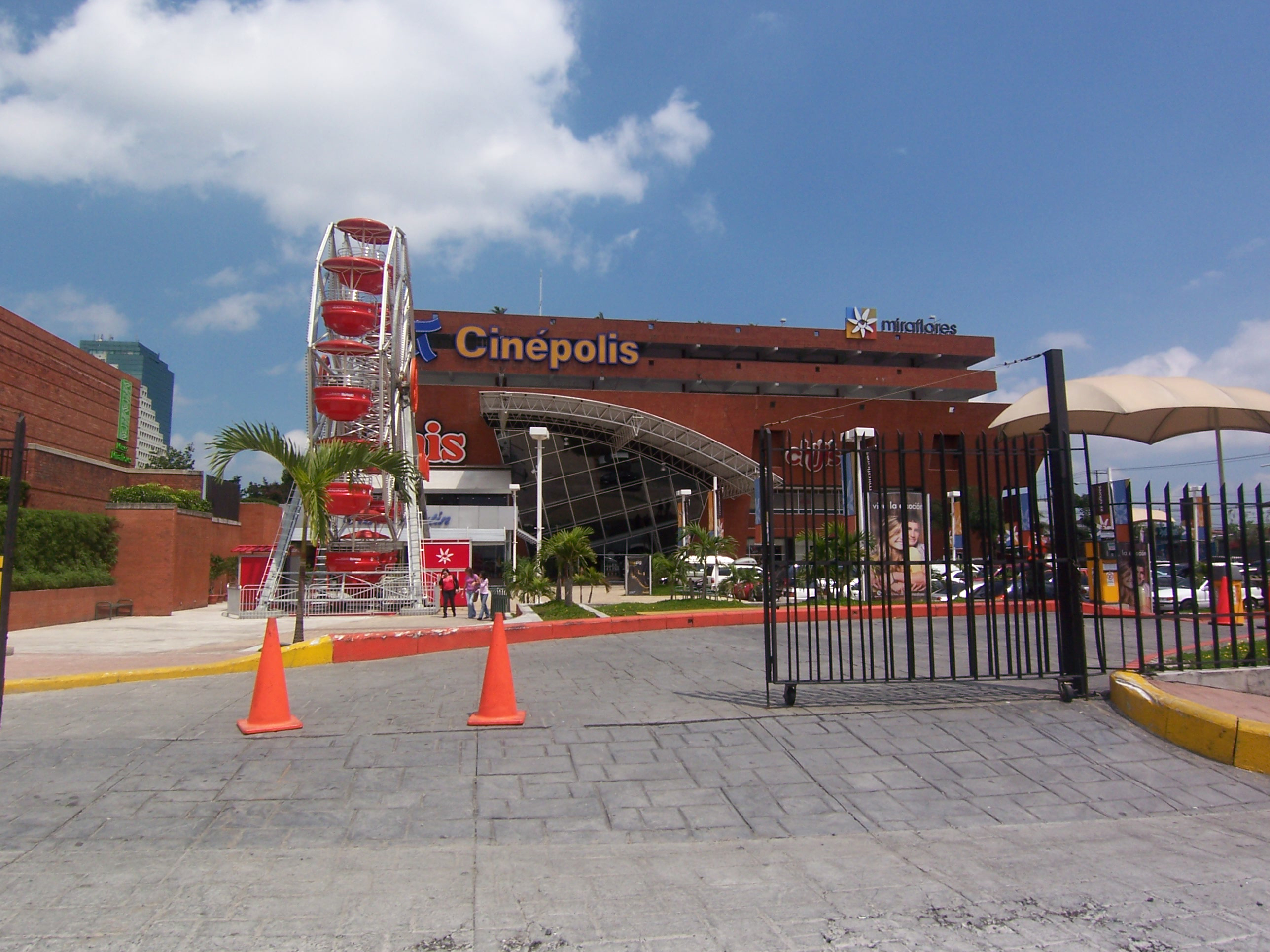 Mall Miraflores